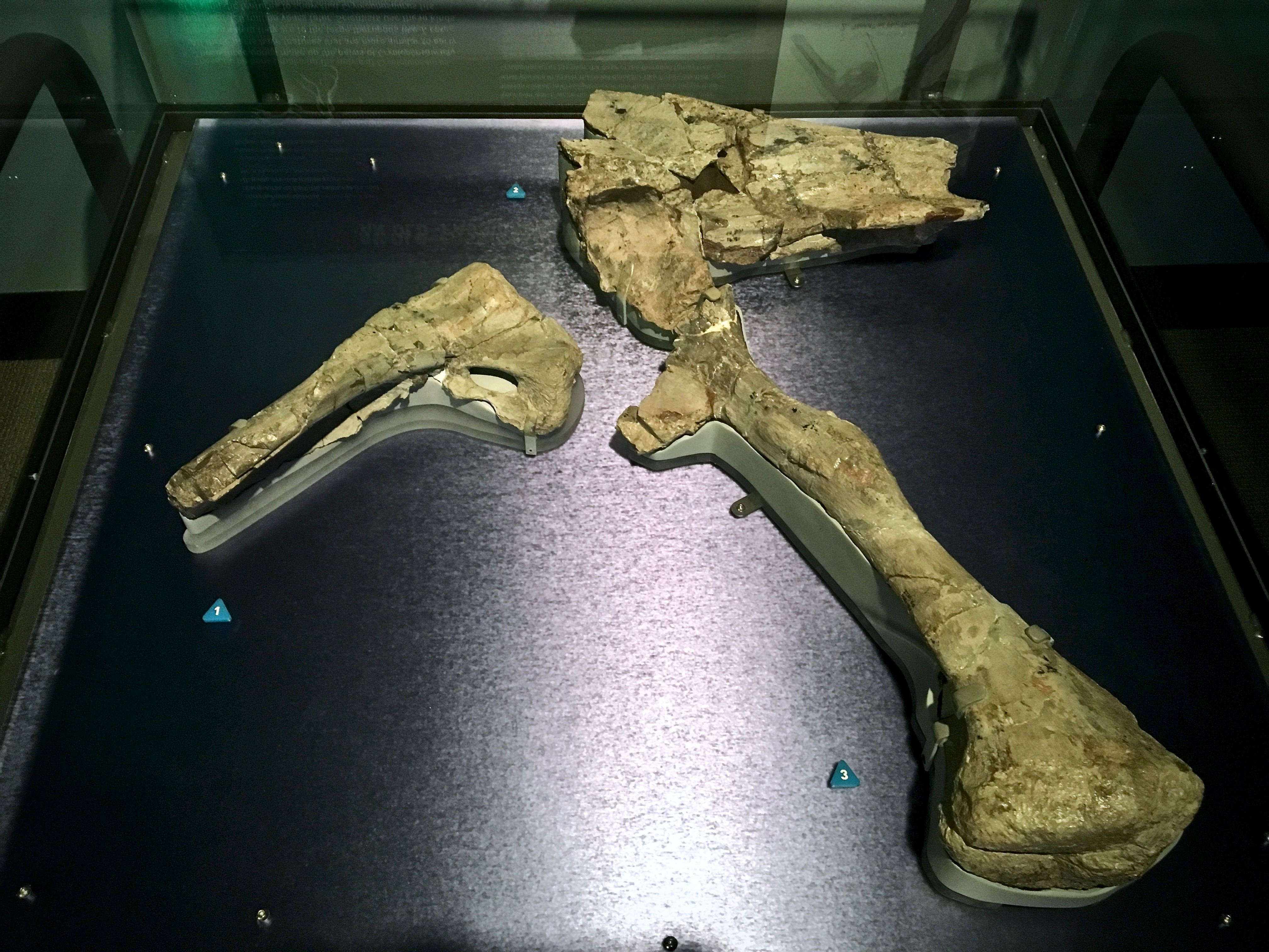 Fossil pubis, ilium, and ischium of Cryolophosauru